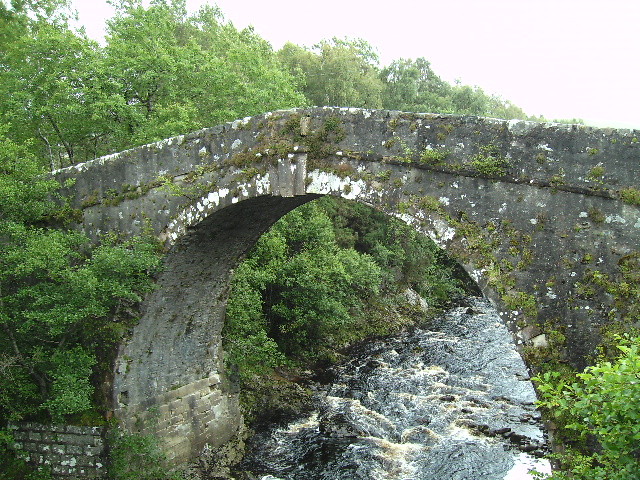 White Bridge Engineered in 1732 by William Caufield, roads inspector under General Wade. A military road, crossing the River Fechlin, linking Fort Augustus with Fort George.